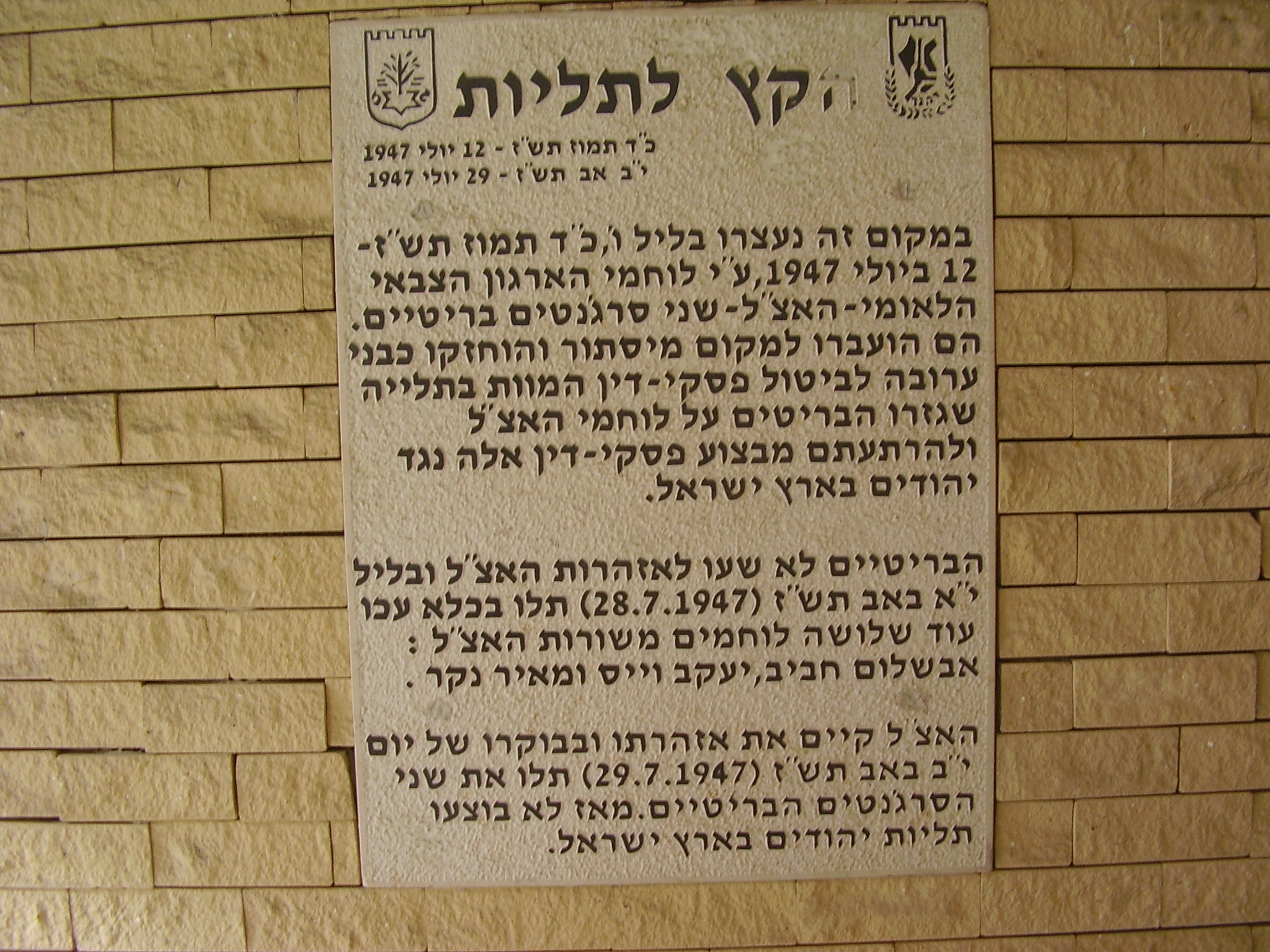 irgun (etzel) memorial in netanya